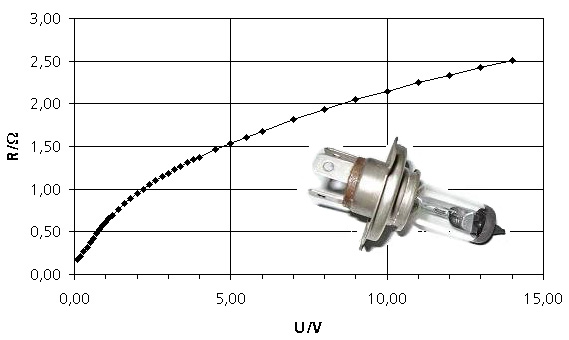 Voltage or temperature dependent resistance of an incandescent lamp filament (12 V, 60 W)